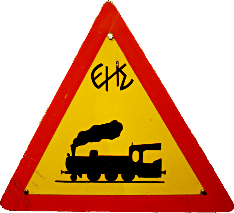 GREECE: A level crossing sign used on the Piraeus-Perama light railway. On display at ISAP museum, Piraeus.